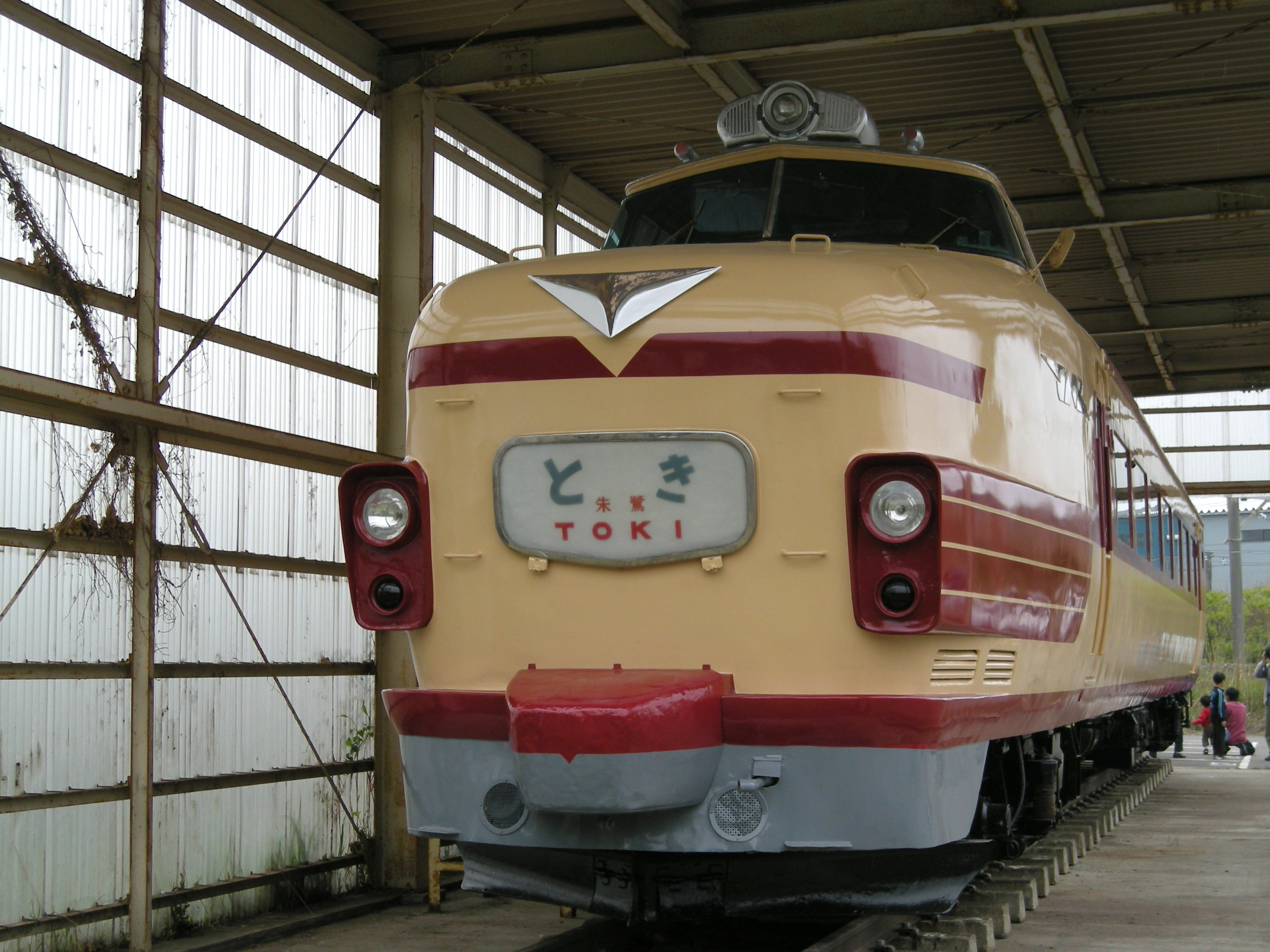 JNR 181 EMU farewell exhibition at Niigata Rolling Stock Center